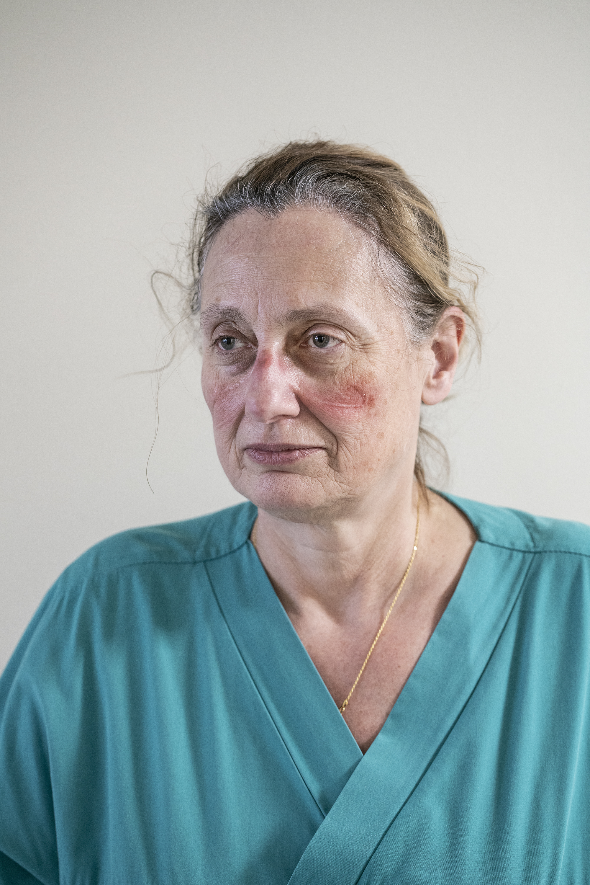 These are the doctors and nurses of the San Salvatore Hospital in Pesaro, Italy, the city of my birth and where I once again reside, which from day one has sadly been at the top of the COVID-19 contagion and death charts. I photographed them at the end of their shifts—twelve hours without a break during their fight in an unequal war. In the quiet moments in front of my camera, these embattled individuals are in a state of total abandon, victims of an exhaustion that eats away at the body and the mind, a breathlessness that renders one disoriented, detached from time and space. They would take off their masks, caps, and gloves in front of my lens, remaining motionless, looking for some sort of normalcy amid the hell they were living.